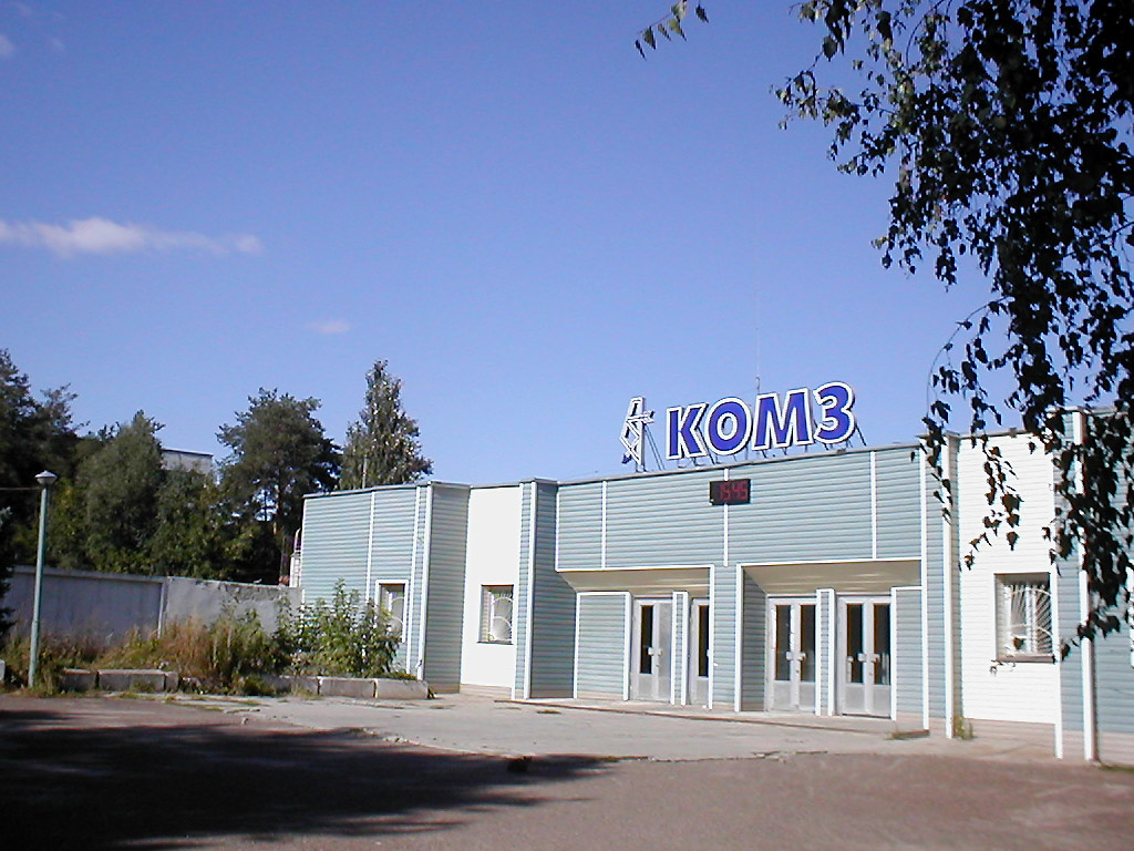 KOMZ optical equipment plant in Derbyshki locality in Kazan